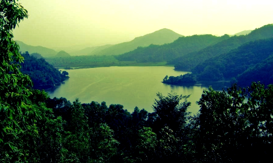 View of Rupa lake from nearby hill.